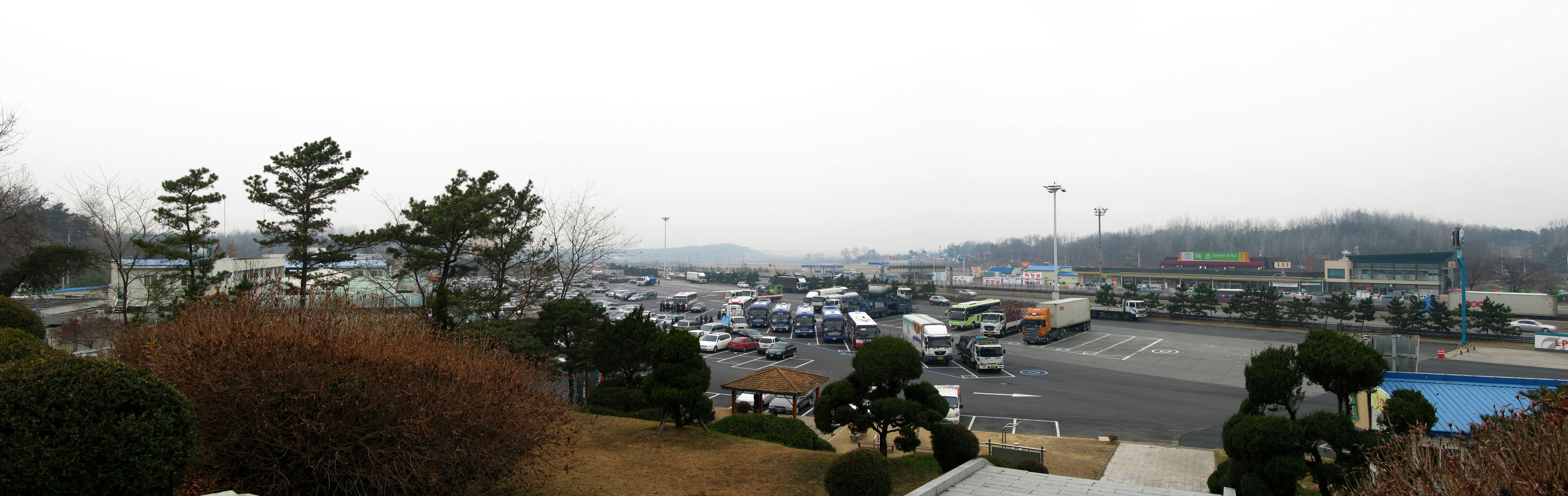 Yeongdong Expressway Yeoju Services Area